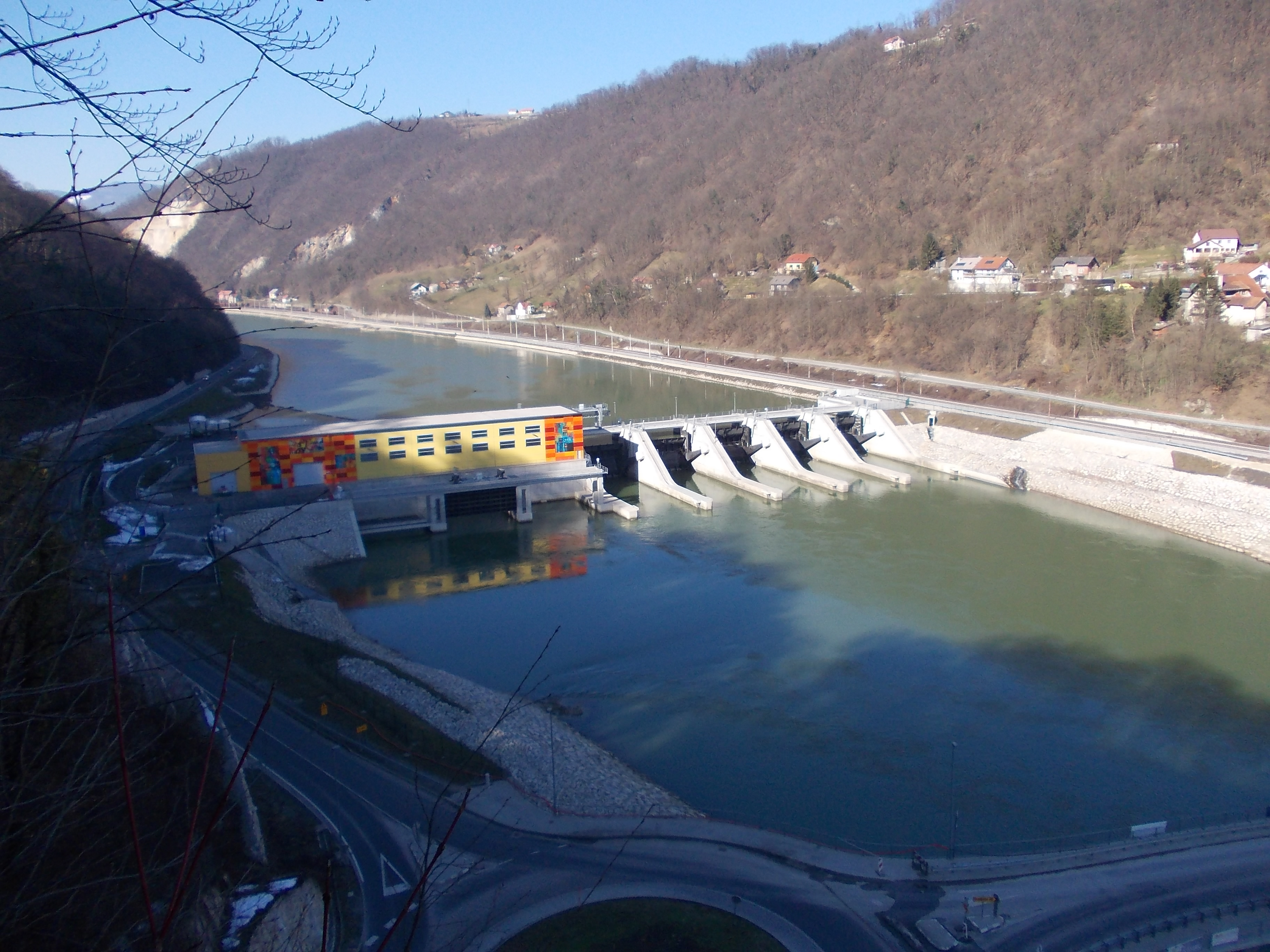 Krško Hydroelectric Power Plant from the Castle hill.